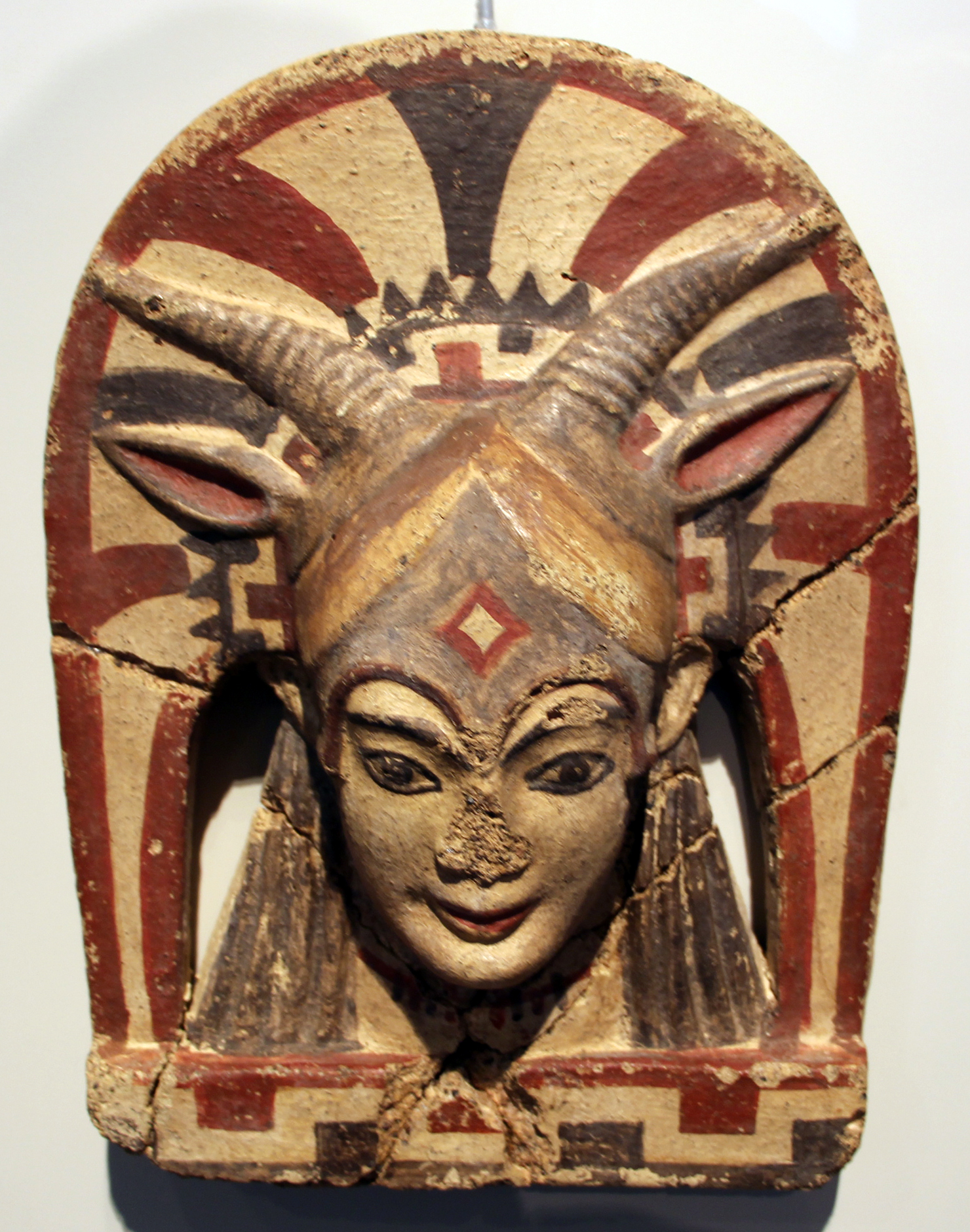 Etruscan antiquities in the Altes Museum Berlin